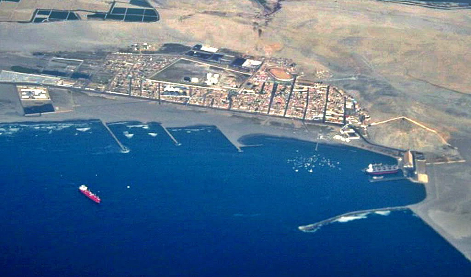 Puerto de Salaverry, Trujillo